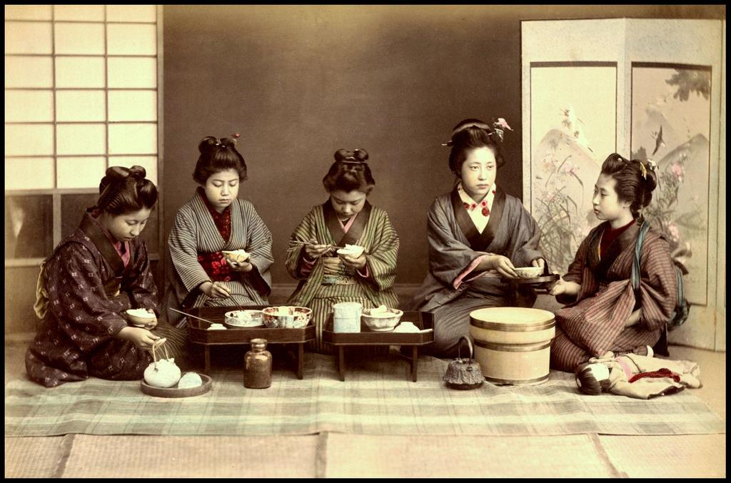 hand tinted albumen print